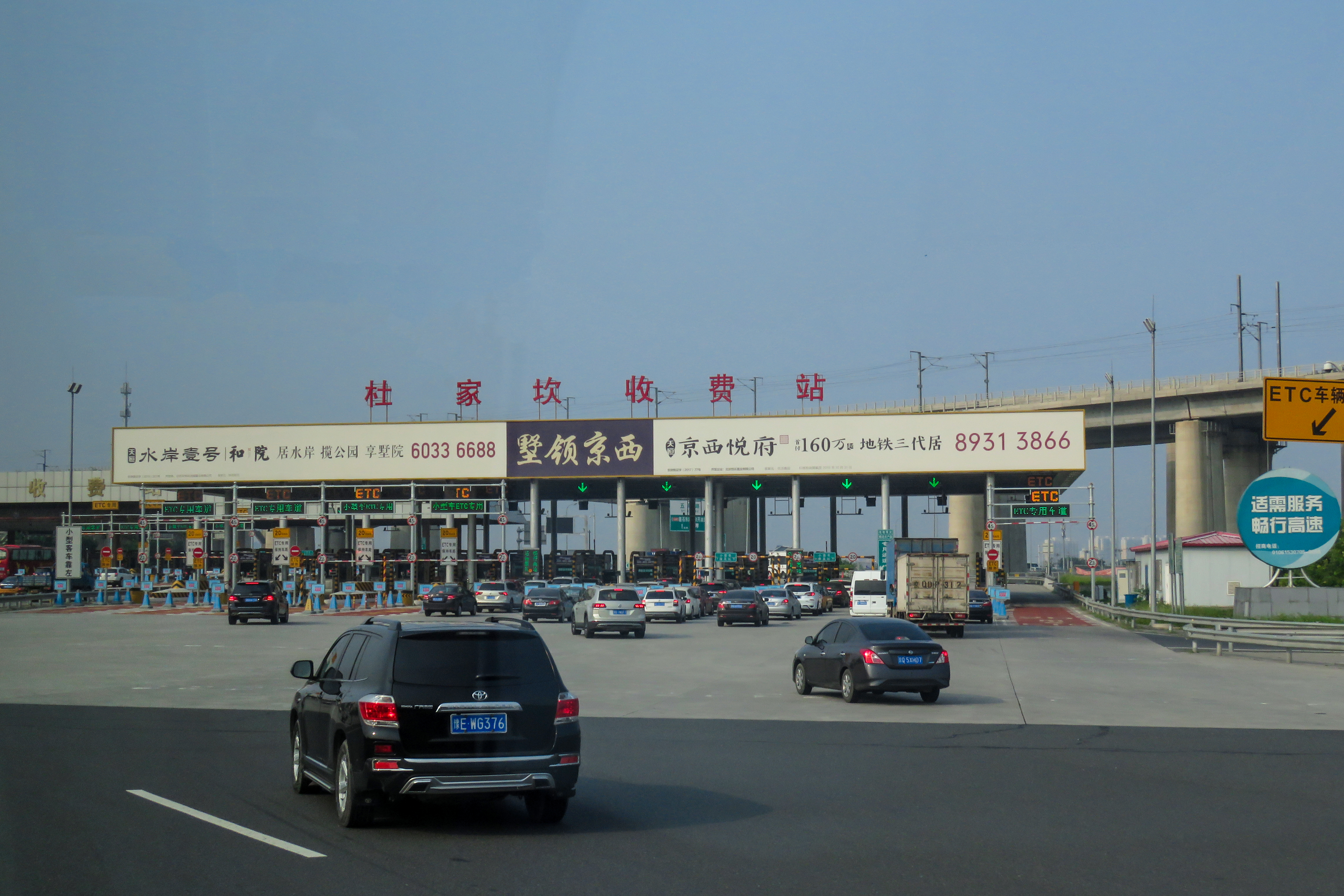 Yes, the (in)famous Dujiakan is here! People often call it "Uncle Du" (杜大爷) due to frequent congestion during peak hours.